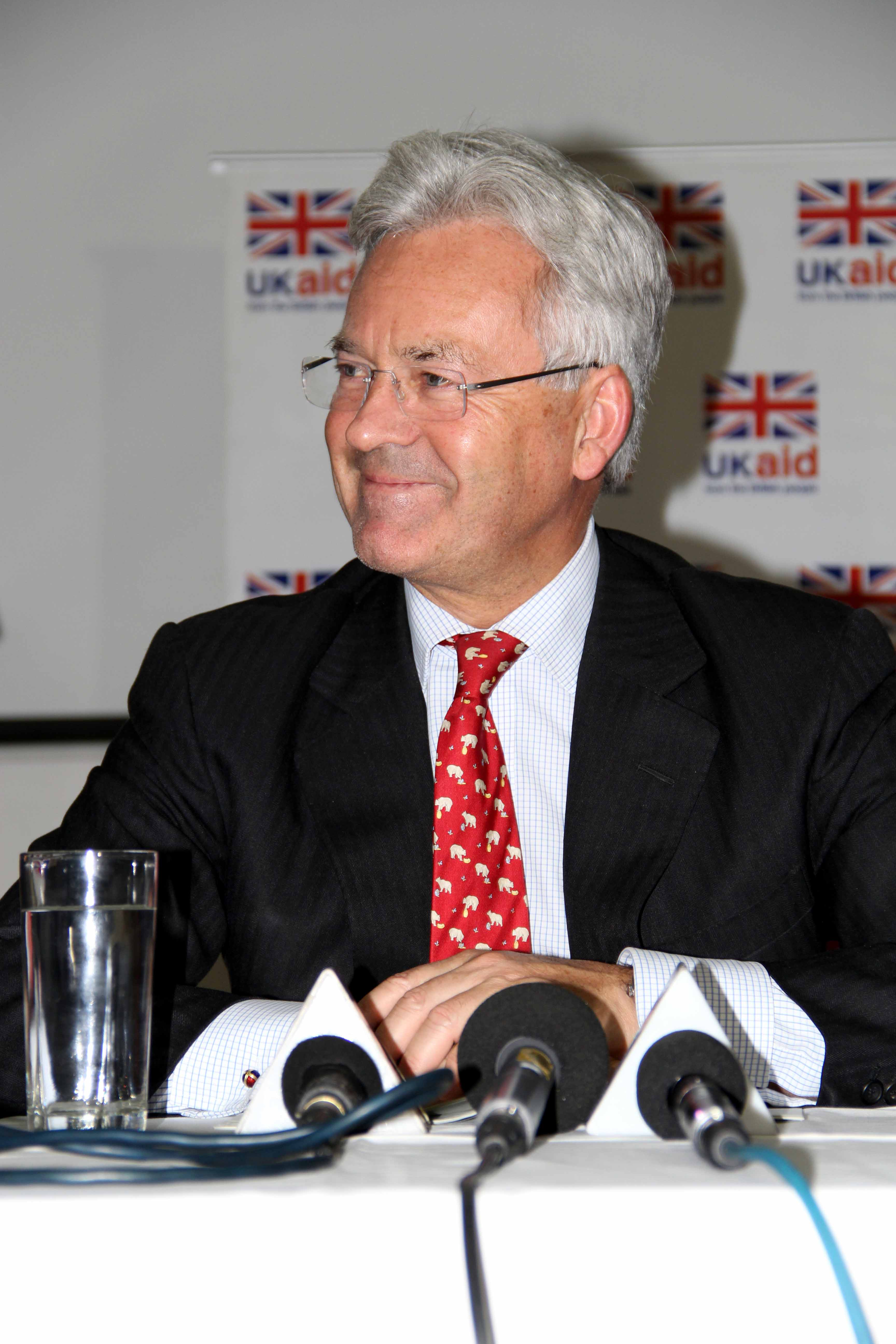 Uk Minister of State for International Development Rt Hon Alan Duncan MP